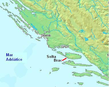 Brac location based on demis free map